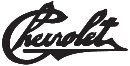 The first logo of Chevrolet.